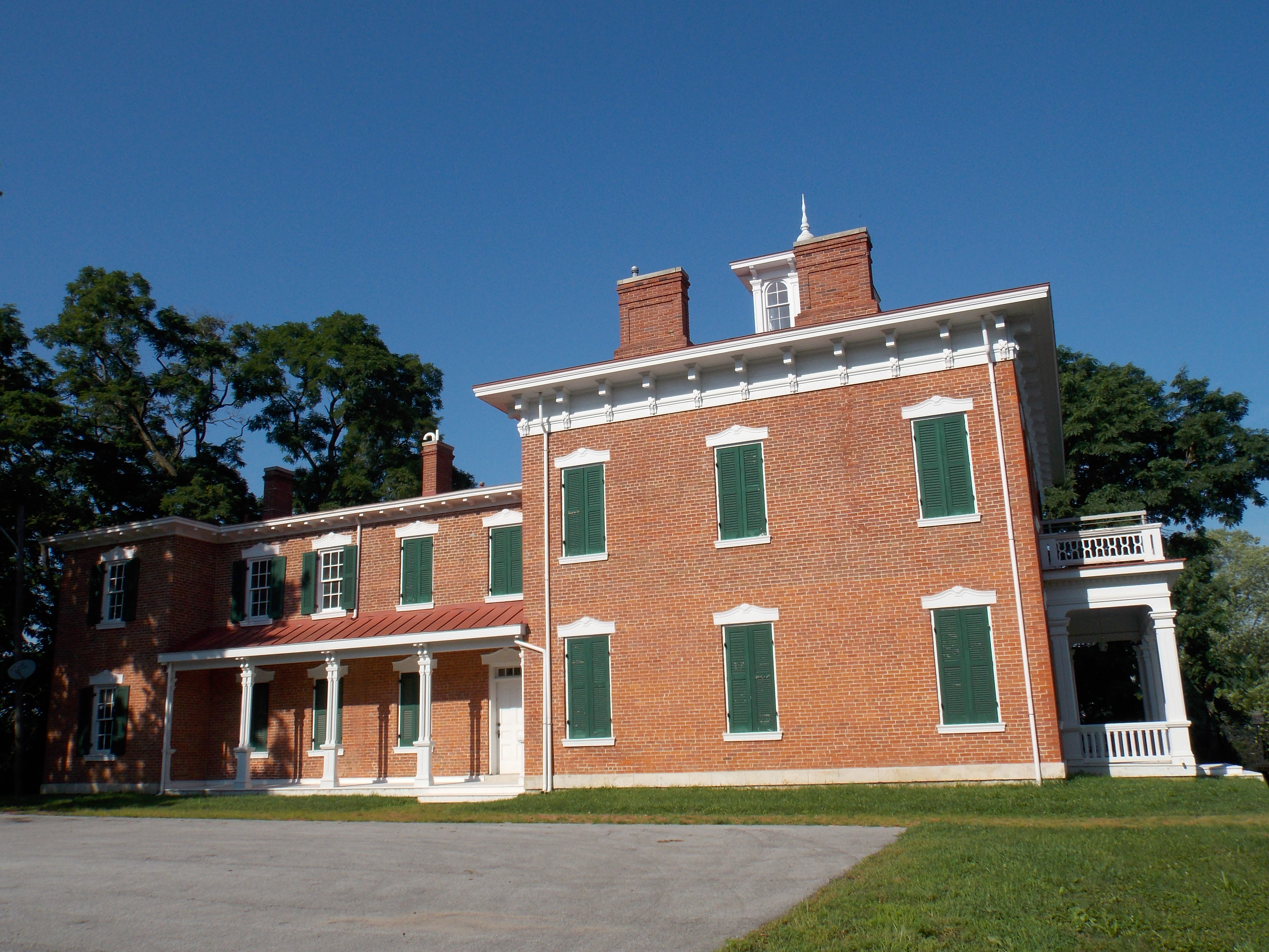 Antoine LeClaire House in Davenport, Iowa is listed on the National Register of Historic Places.